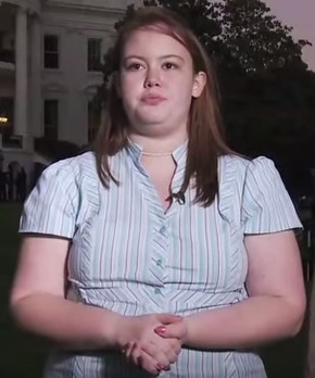 Caroline Moore and Lucas Bolyard speak at the first White House Astronomy Night